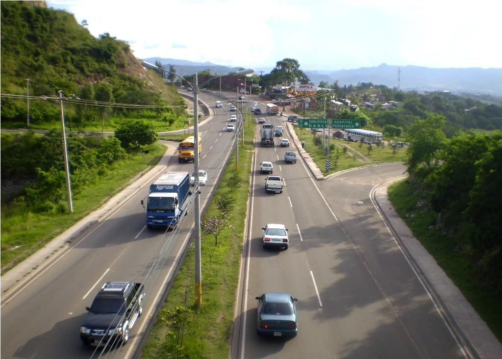 Southbound view of Anillo Periférico (beltway) from the Maria Pediatric Hospital overpass in Tegucigalpa, Honduras.